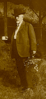 The picture shows Cyrus Maxwell Boger near his house in Parkersburg.